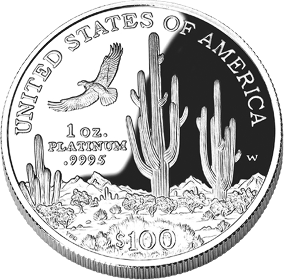 Removed background, cropped, and converted to PNG with Macromedia Fireworks. This image depicts a unit of currency issued by the United States of America. If Fraudulent use of this image is punishable under applicable counterfeiting laws. As listed by the United States Secret Service at money illustrations, the Counterfeit Detection Act of 1992, Public Law 102-550, in Section 411 of Title 31 of the Code of Federal Regulations (31 CFR 411), permits color illustrations of U.S. currency provided:1. The illustration is of a size less than three-fourths or more than one and one-half, in linear dimension, of each part of the item illustrated;2. The illustration is one-sided; and3. All negatives, plates, positives, digitized storage medium, graphic files, magnetic medium, optical storage devices, and any other thing used in the making of the illustration that contain an image of the illustration or any part thereof are destroyed and/or deleted or erased after their final use. Certain coins contain copyrights licensed to the U.S. Mint and owned by third parties or assigned to and owned by the U.S. Mint [1]. For the United States Mint circulating coin design use policy, see [2]; for the policy on the 50 State Quarters, see [3]. Also: COM:ART #Photograph of an old coin found on the Internet